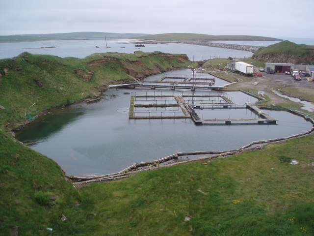 Lamb Holm, Orkney Islands. Old Quarry, New Fish Farm This is the main quarry that was used for the material to build the Churchill Barriers by Italian POW's in the second world war. It now houses a fish farm, so it is good to see it still being utilised. In the background is barrier no.2 between the islands of Lamb Holm and Glim(p)s Holm.